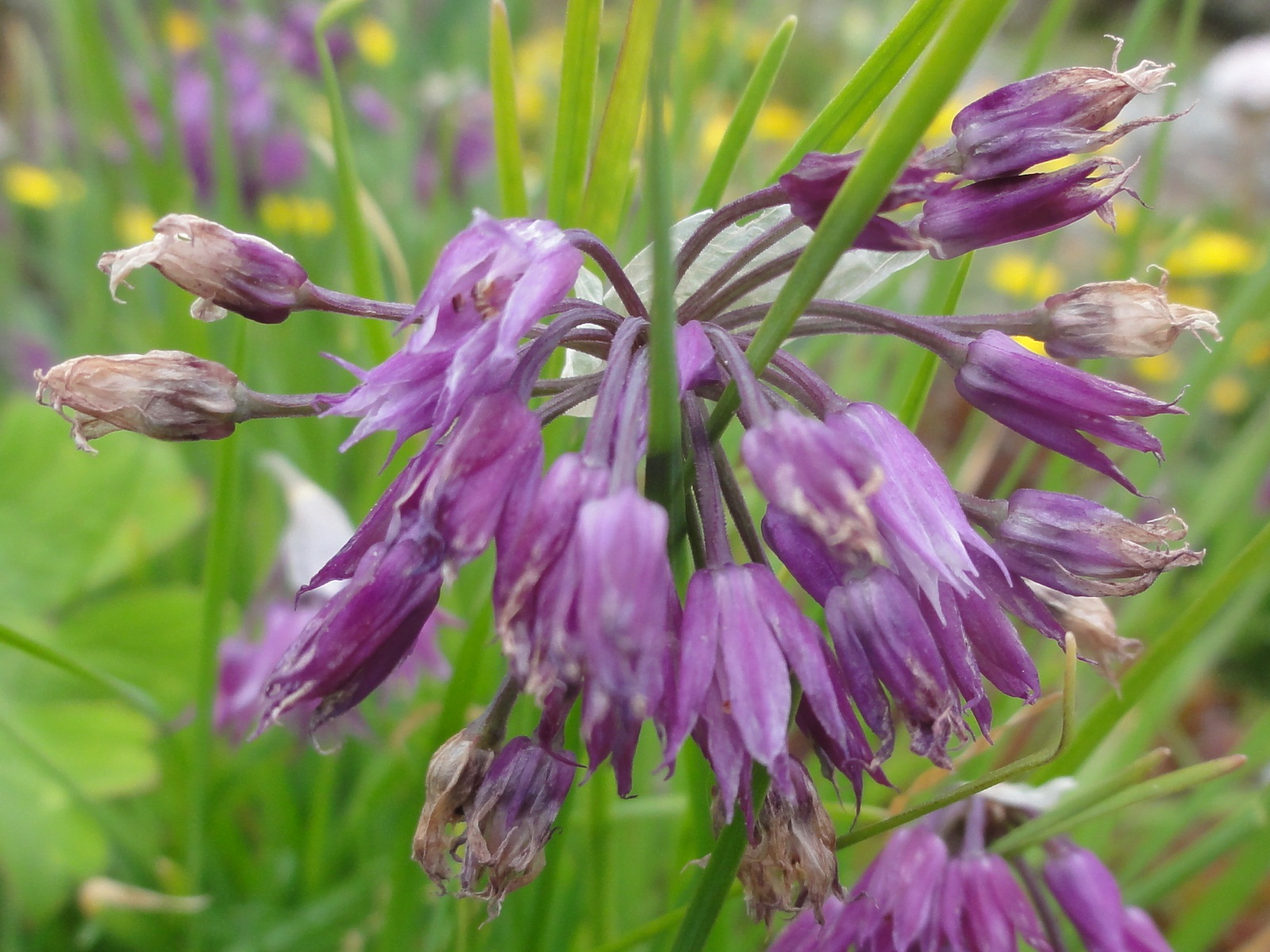 Allium cyathophorum var. farreri